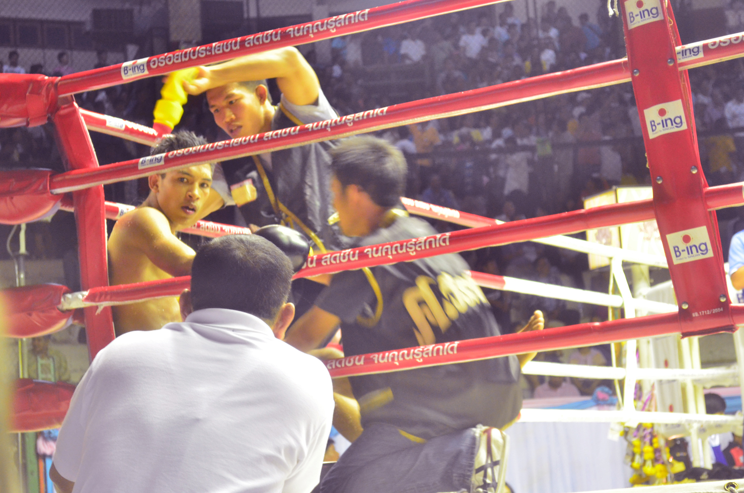 Mondam S.Weerapol